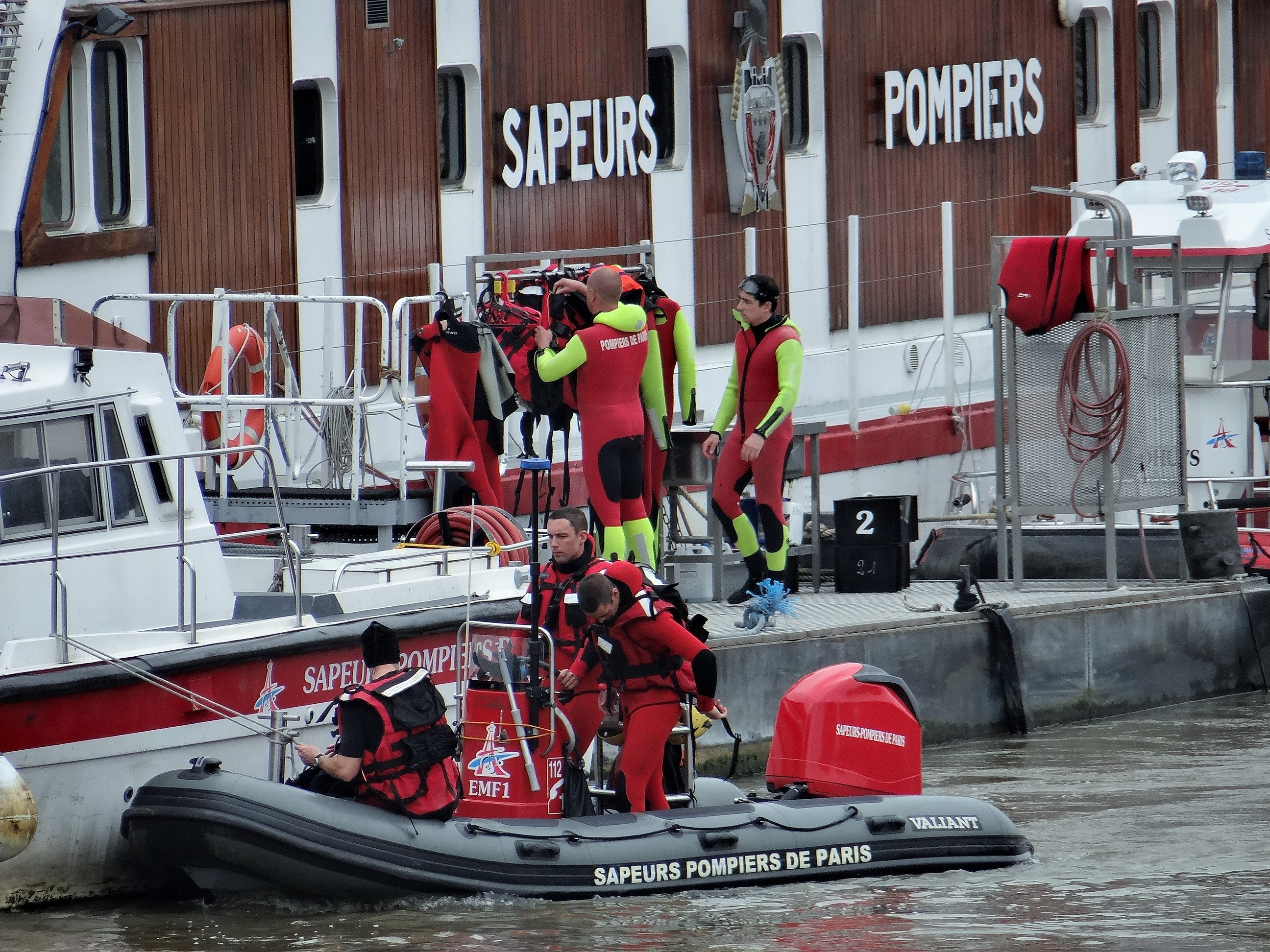 support center and emergency of Paris firefighters La Monnaie during the flood in June 2016